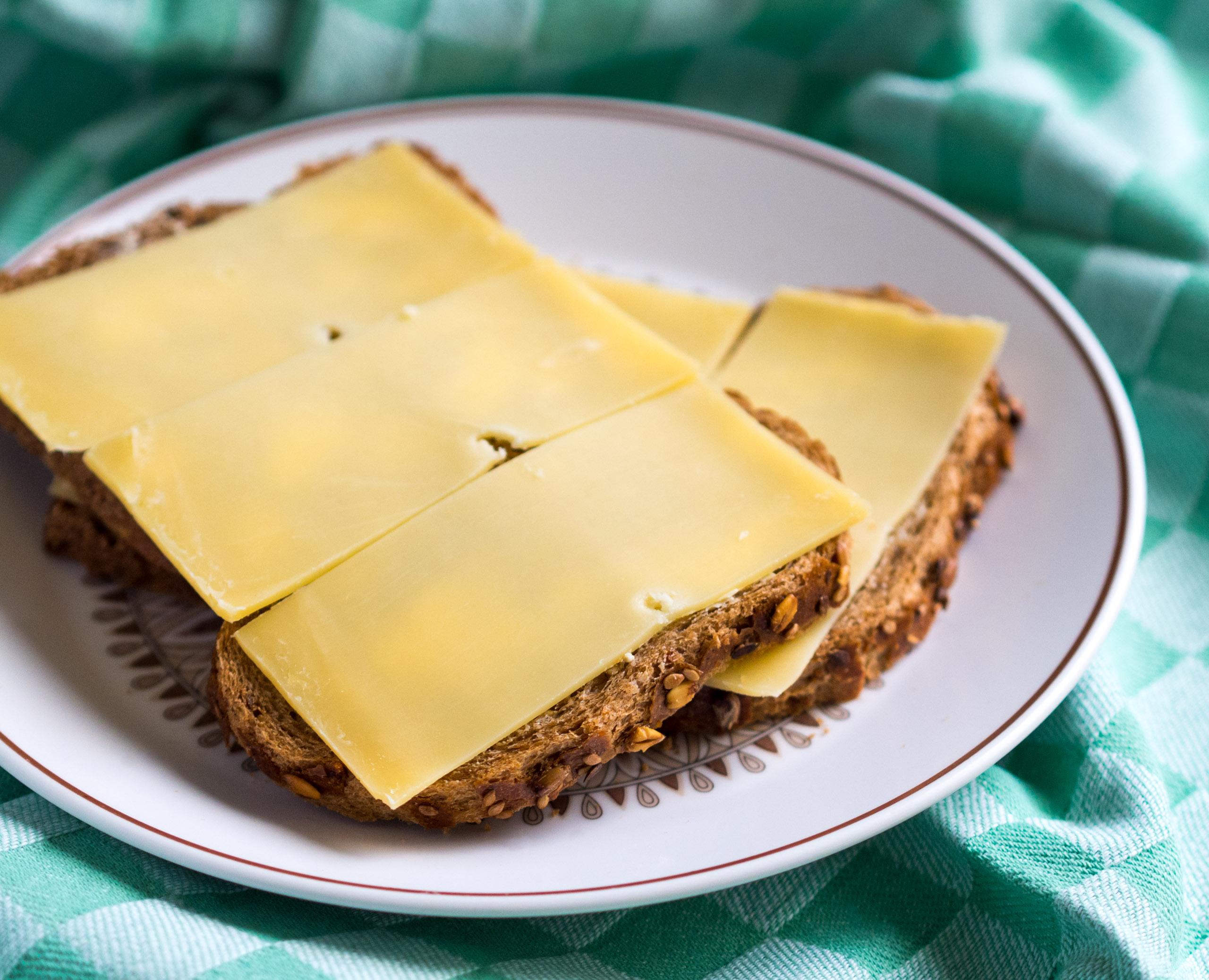 A boterham met oude kaas, literally "butter ham with old cheese"; "boterham" being the word for "sandwich" in Dutch.